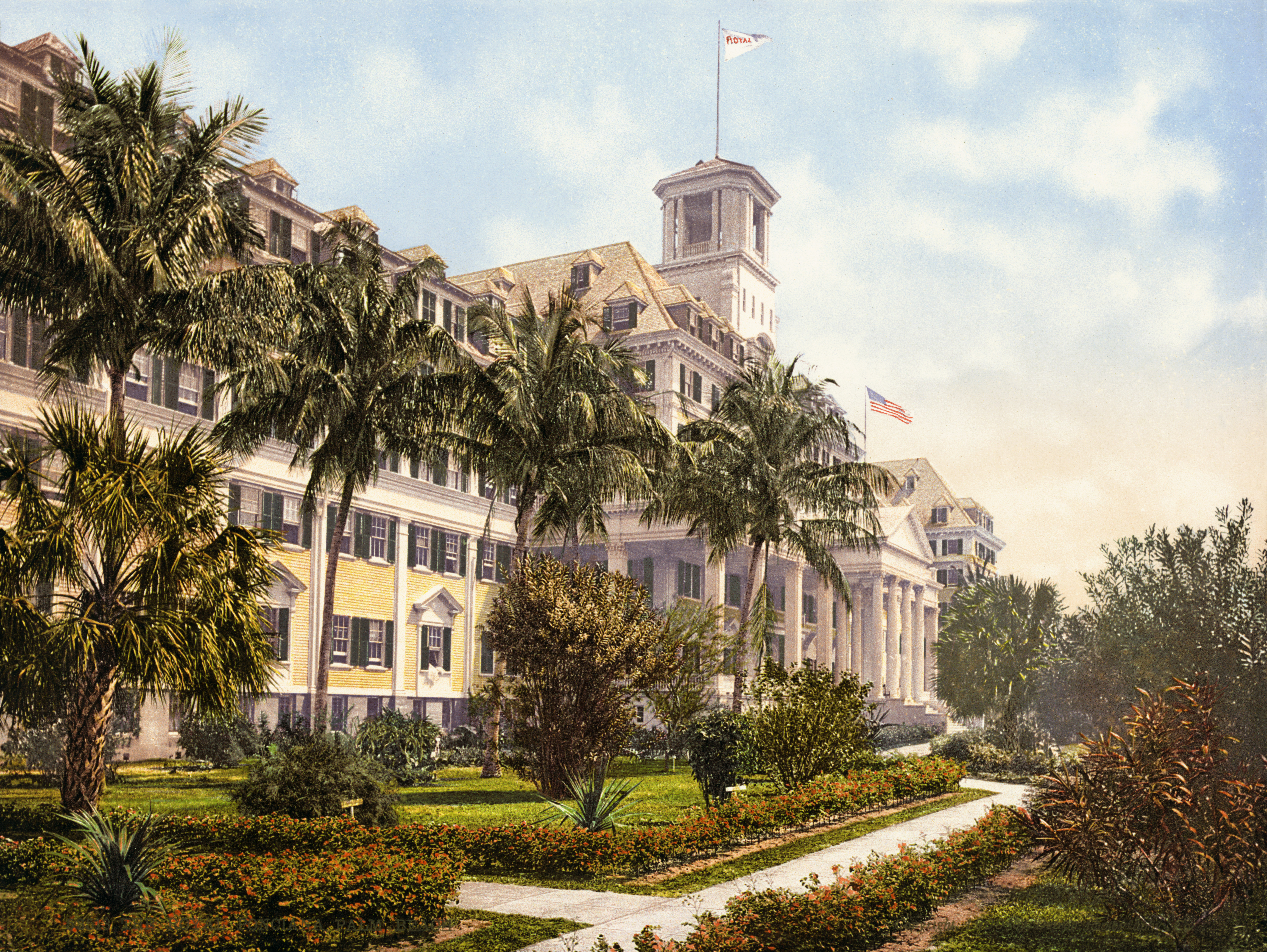 53513. Royal Poinciana Hotel (misspelled as "Ponciana" here), Palm Beach, Florida.].